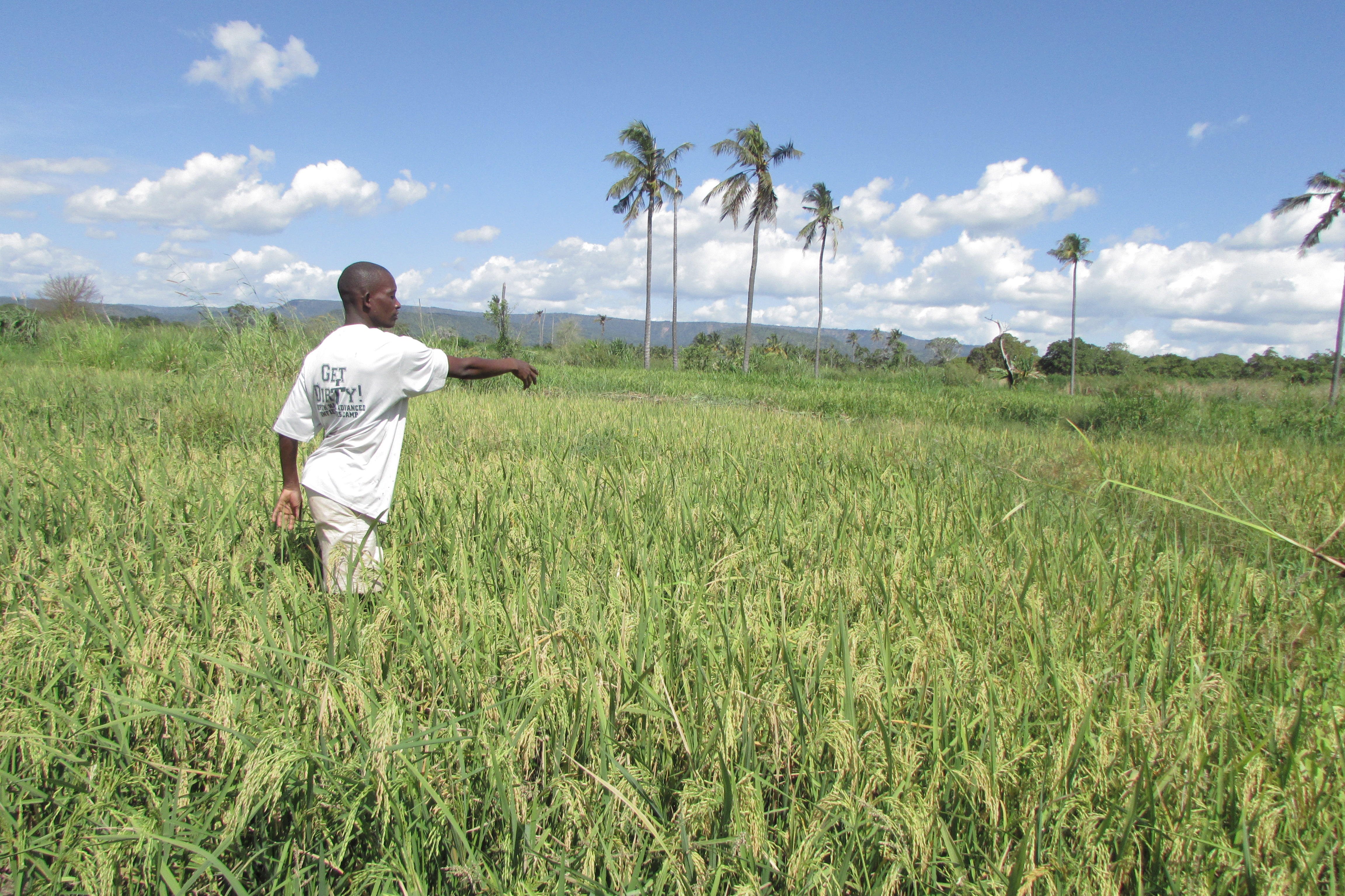 Mambomba, a Tanzanian farmer, works in his rice field in the Ndanda region. This is an image of food from Tanzania